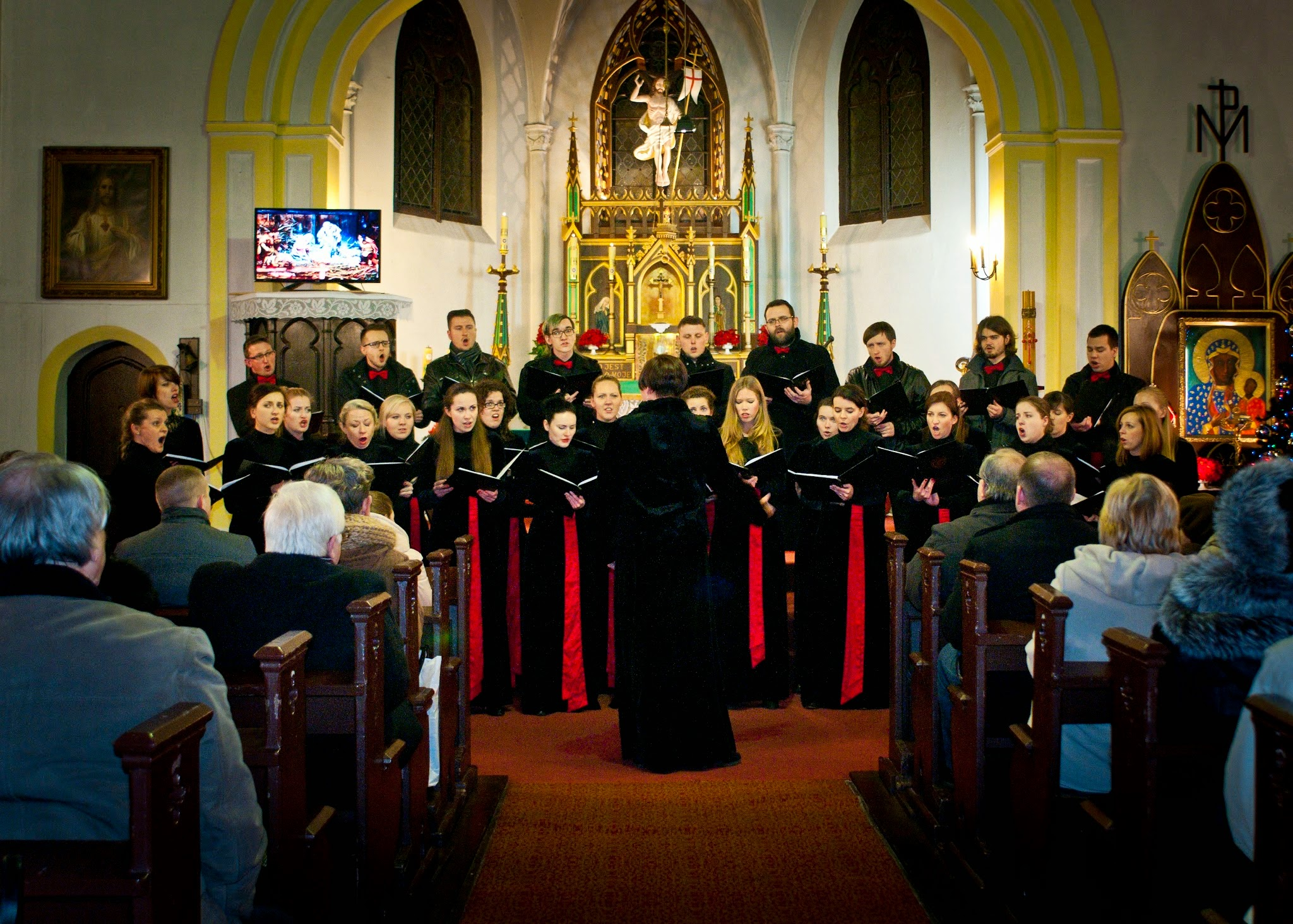 Chór podczas koncertu kolęd w 2015 roku